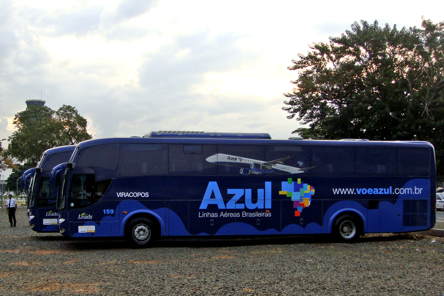 Azul's bus fleet at Viracopos Airport, Campinas, Brazil.